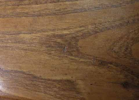 old elm